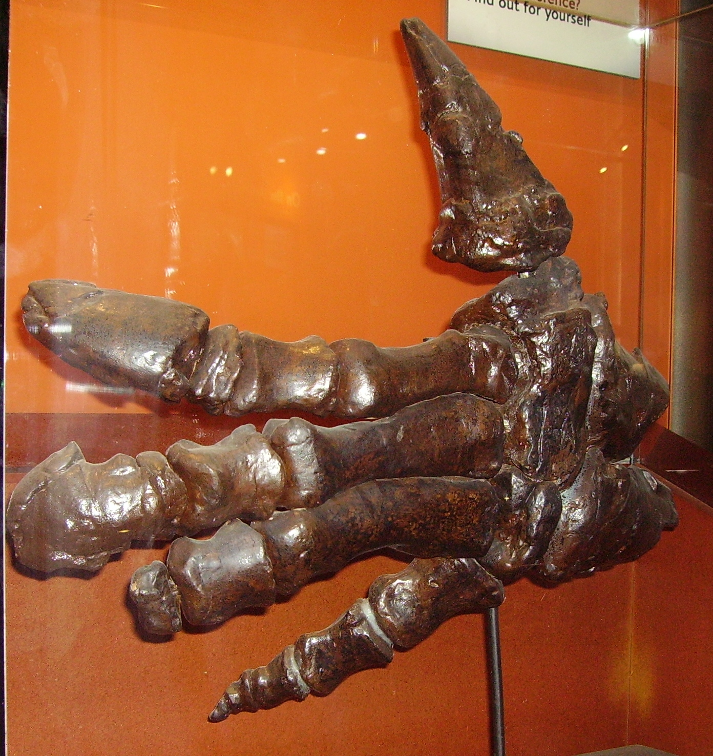 Iguanodon - Natural History Museum, London